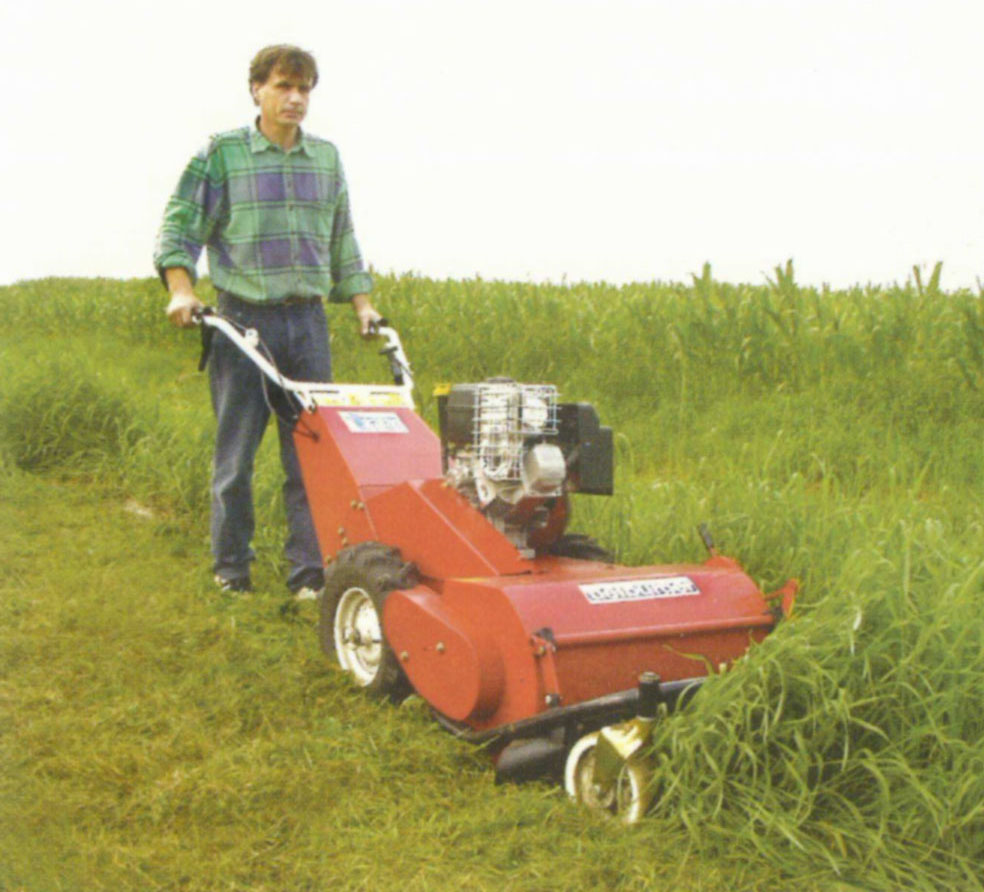 flail mower